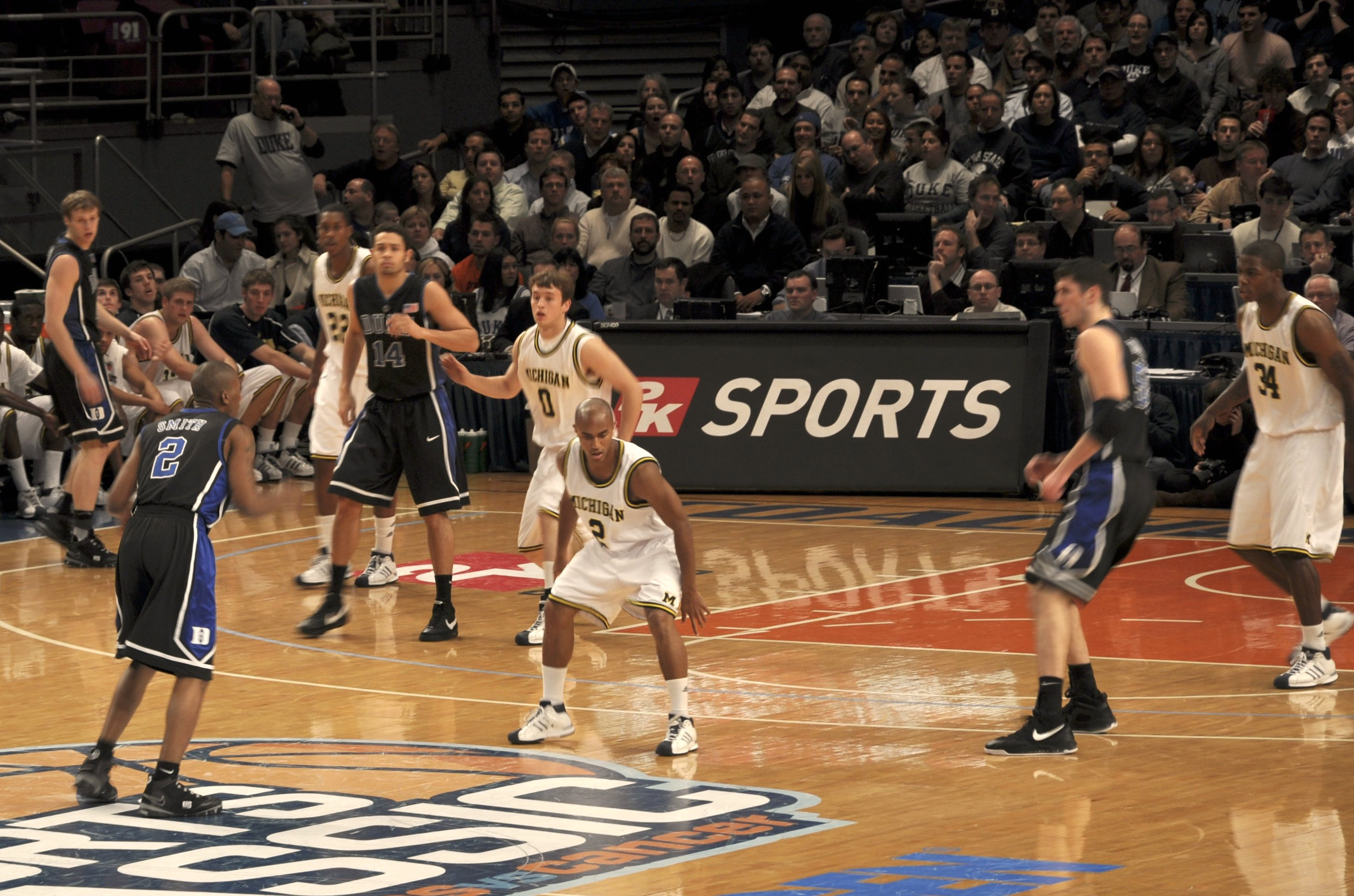 Michigan Wolverines men's basketball defends against Duke Blue Devils men's basketball